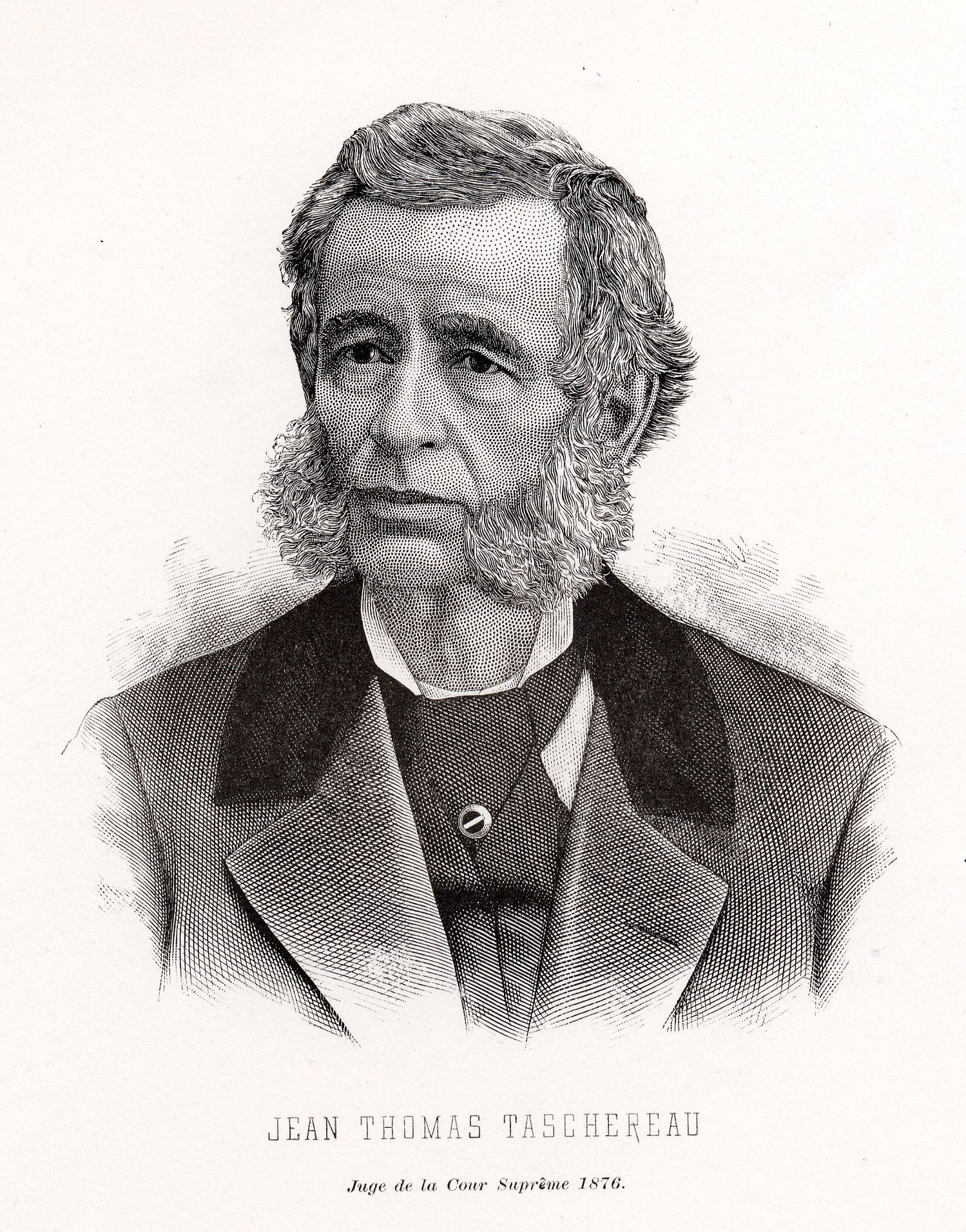 Jean-Thomas Taschereau, judge in the Supreme Court of Canada. Anonymous engraving, published in Benjamin Sulte, Histoire des Canadiens-Français [1]. Several editions were published, but this was certainly pre-1900.